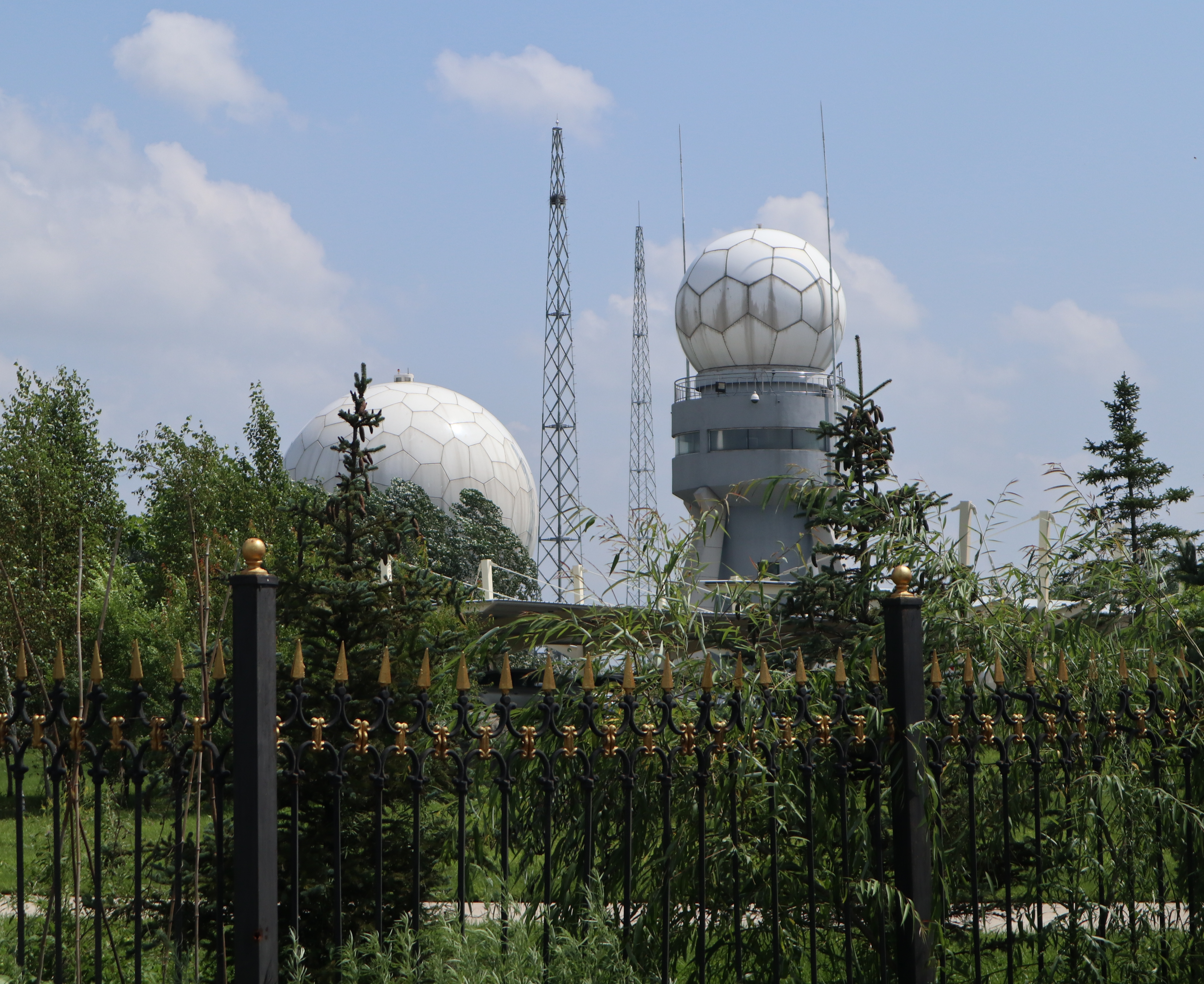 Jiamusi Meteorological Satellite Ground Station is one of the four national meteorological satellite ground stations in China.